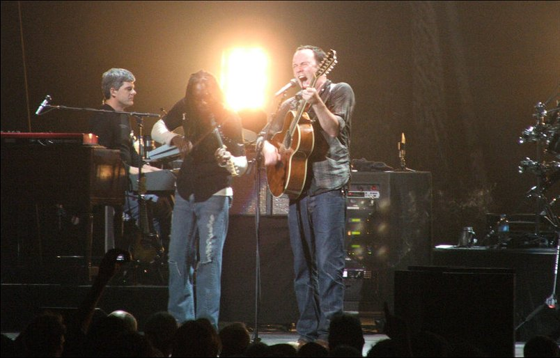 The Dave Matthews Band playing at the Vodafone Arena, Melbourne, Australia, May 1st 2007